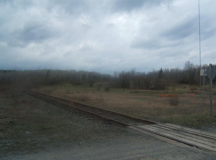 Site of the abandoned Milne Townsite in Temagami, Ontario